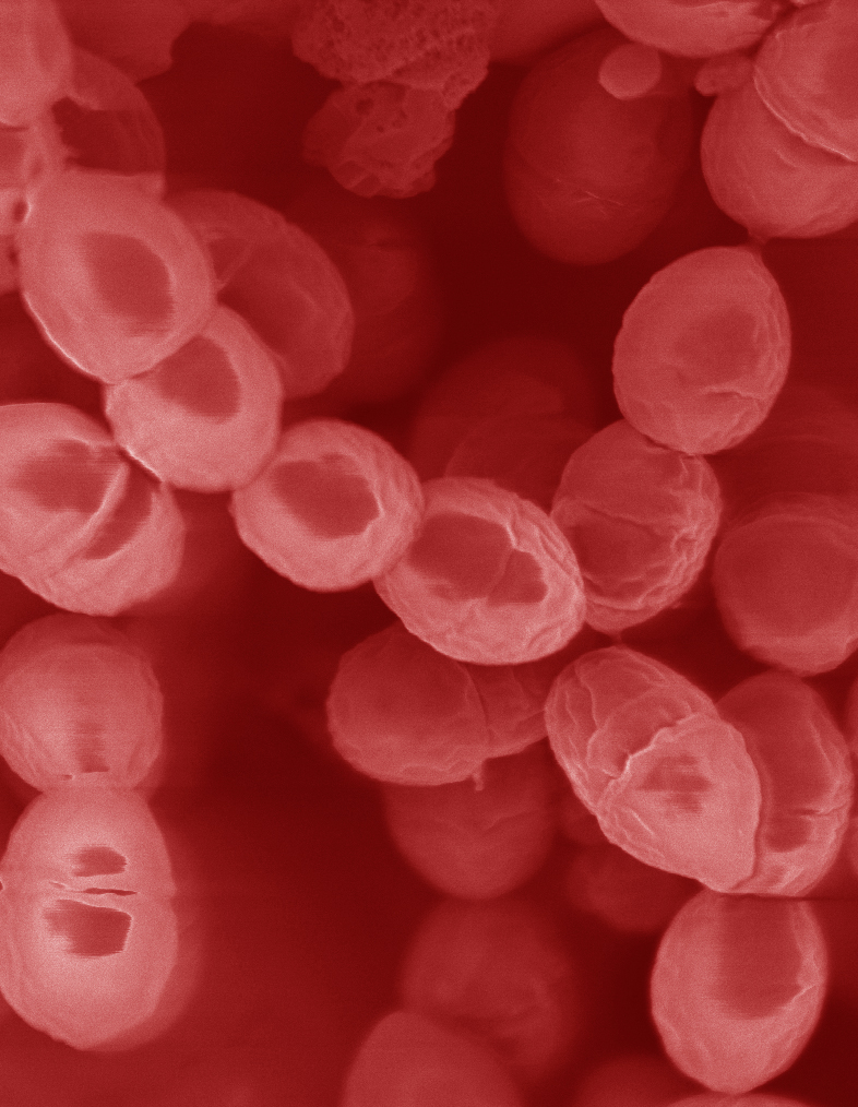 This SEM is a color-enhanced image of Lactococcus lactis. Courtesy of Kenneth Todar, PhD.